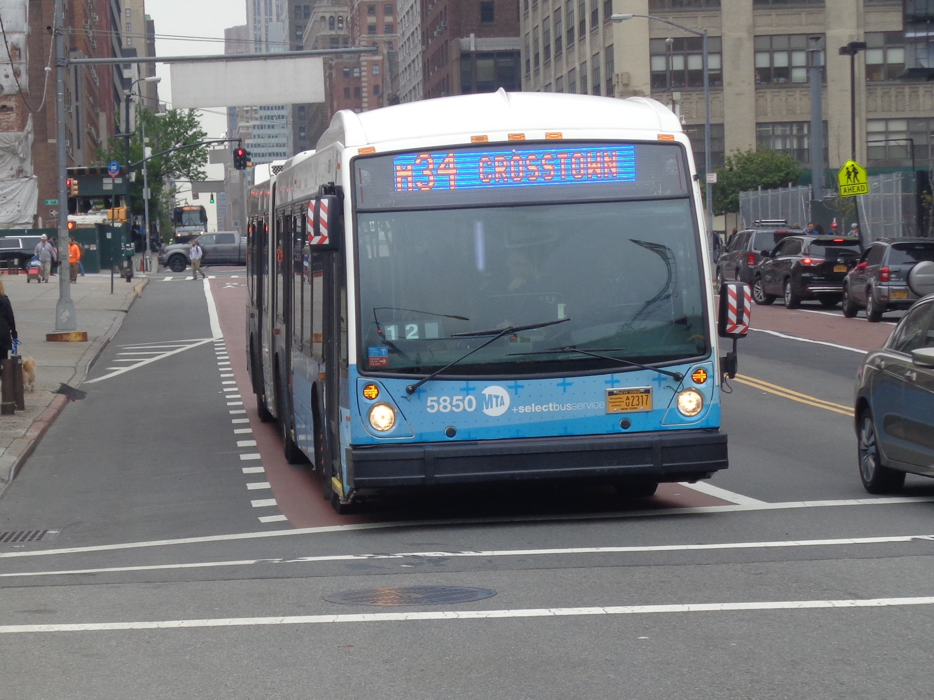 A Javits Center-bound M34 Select Bus Service at 34th Street and Hudson Boulevard East in Hudson Yards, Manhattan.